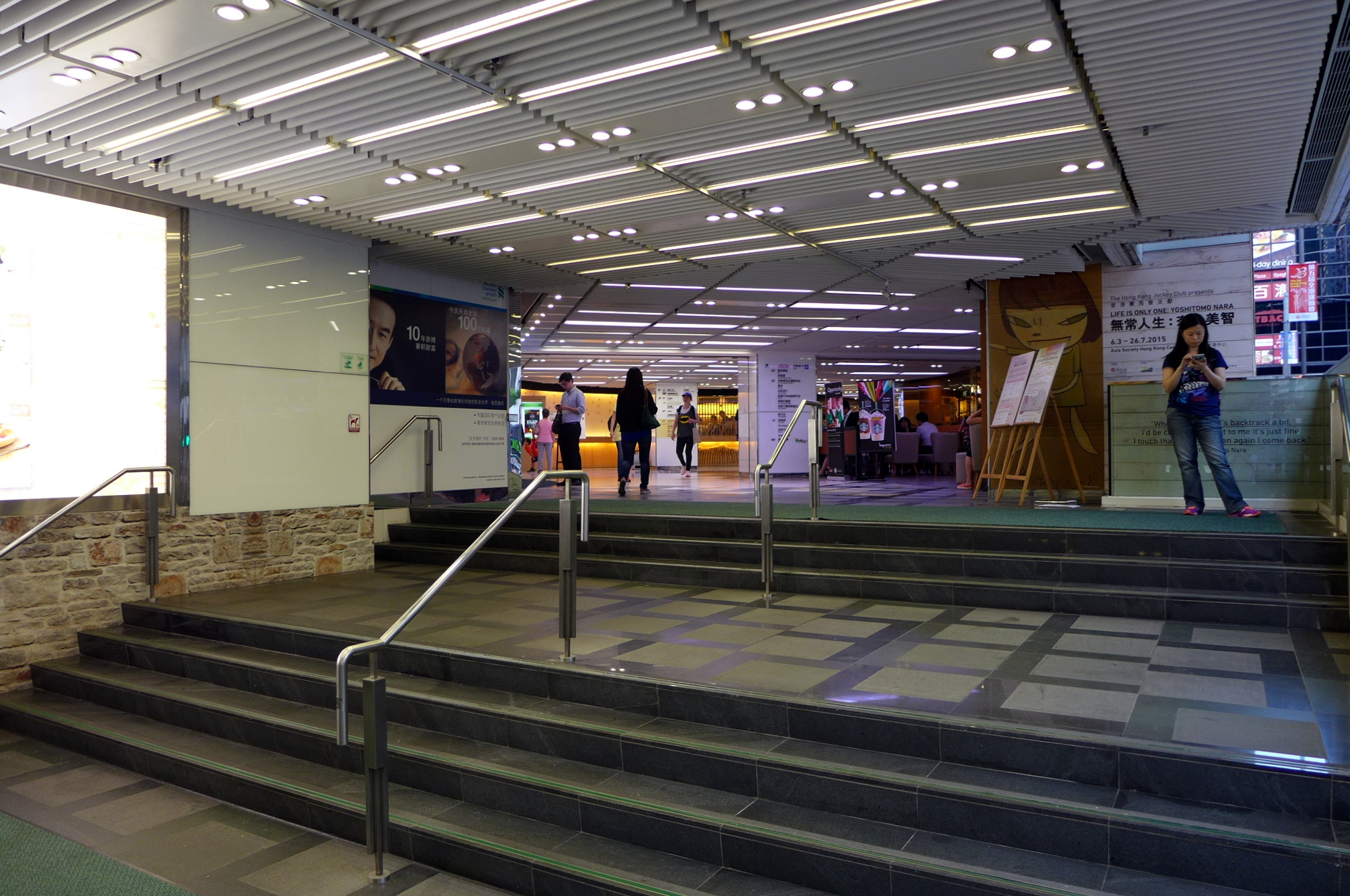 Kornhill Plaza Entrance